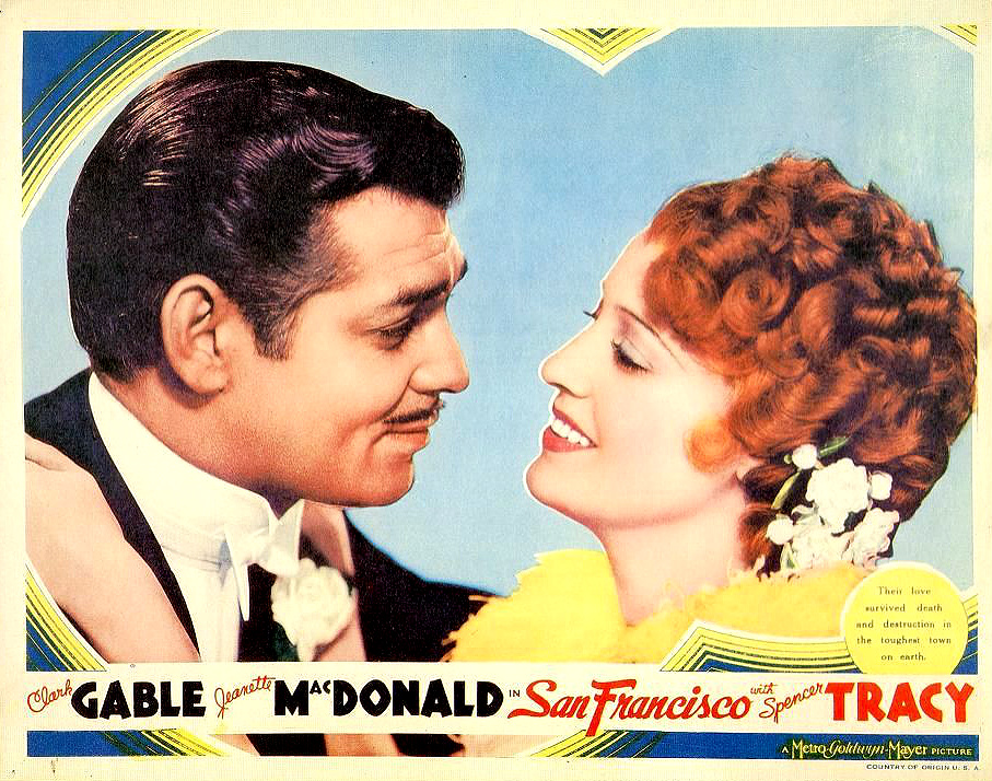 Lobby card for the 1936 film San Francisco.